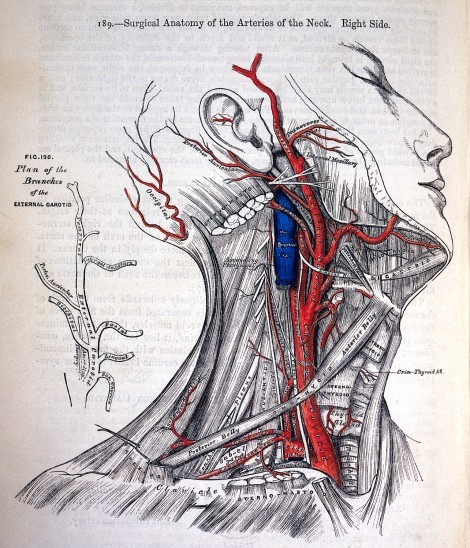 Surgical Anatomy of the Arteries of the neck. Right side. page 316, plate 189 from 1st ed. of Gray's Anatomy.